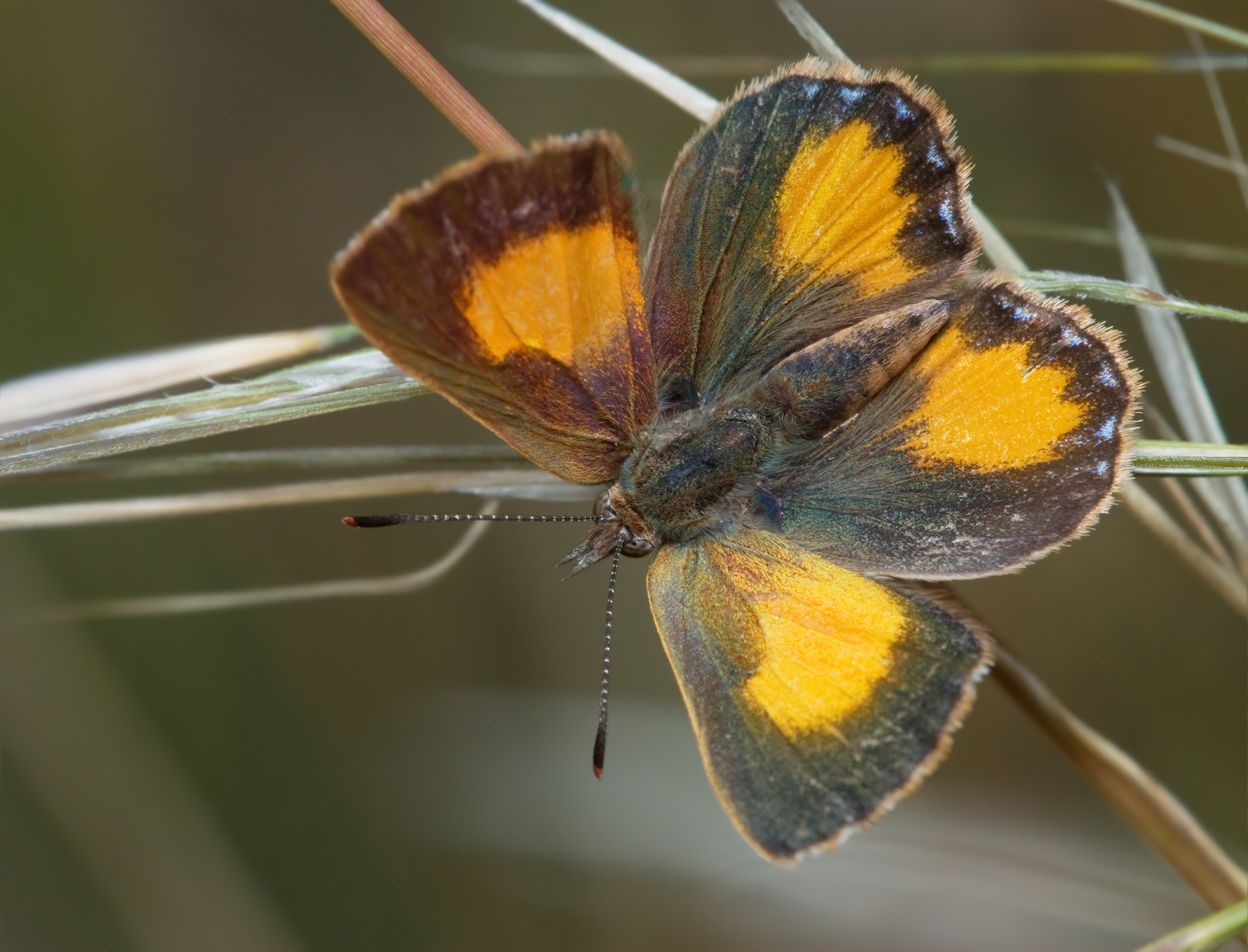 Bright Copper (Paralucia aurifer), Austin's Ferry, Tasmania, Australia